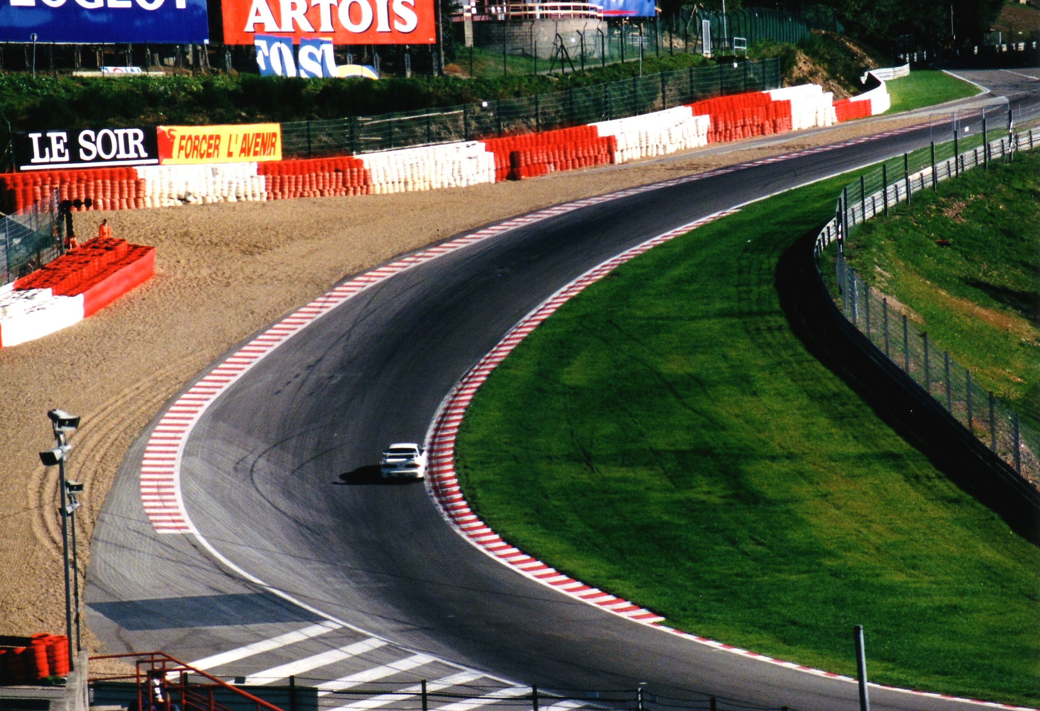 Former version of famous "Eau Rouge" corner at Spa-Francorchamps racetrack